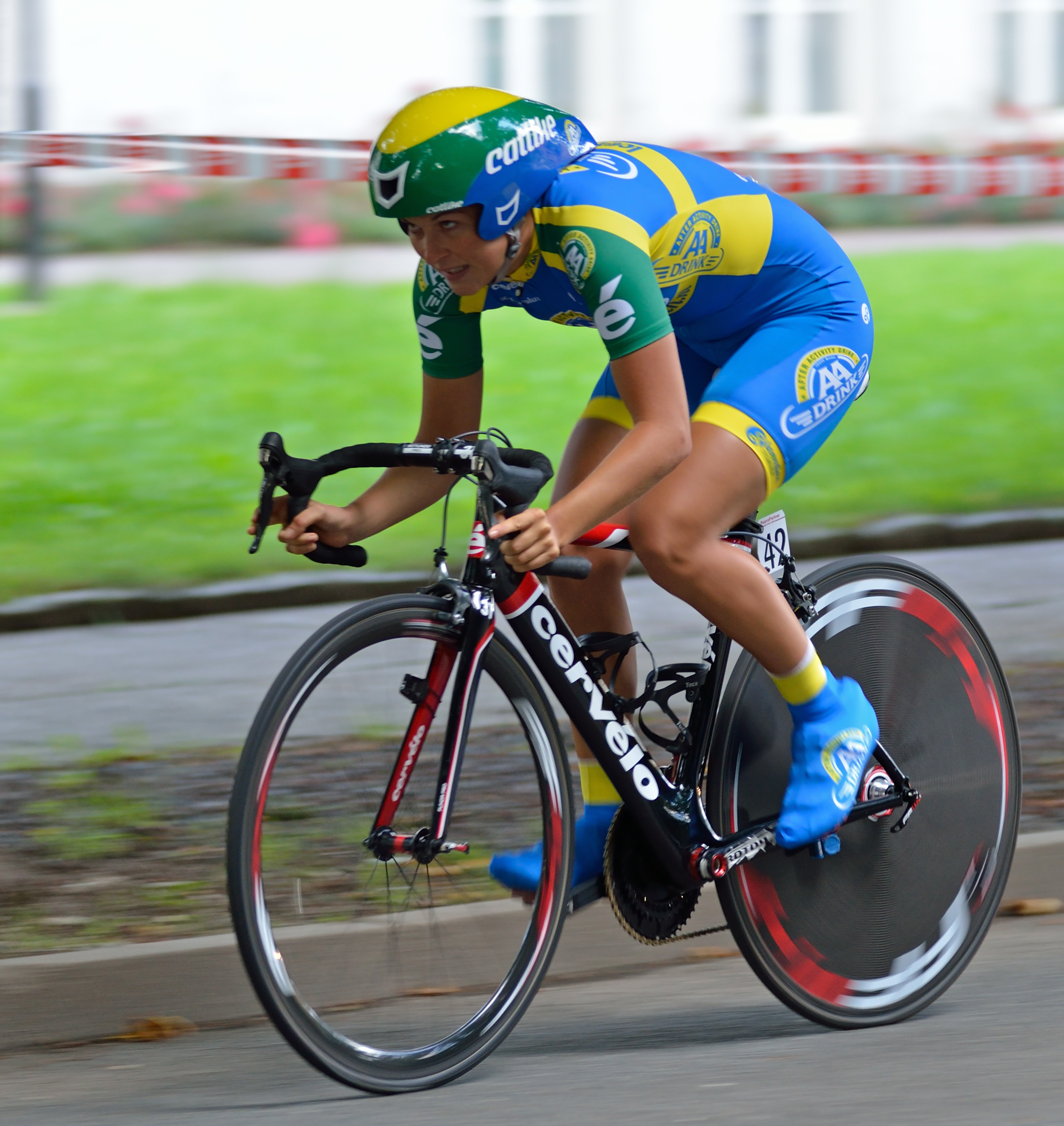 Lucy Martin from the AA Drink-leontien.nl team during the Women's Tour of Thuringia 2012 in Zwickau, Germany.